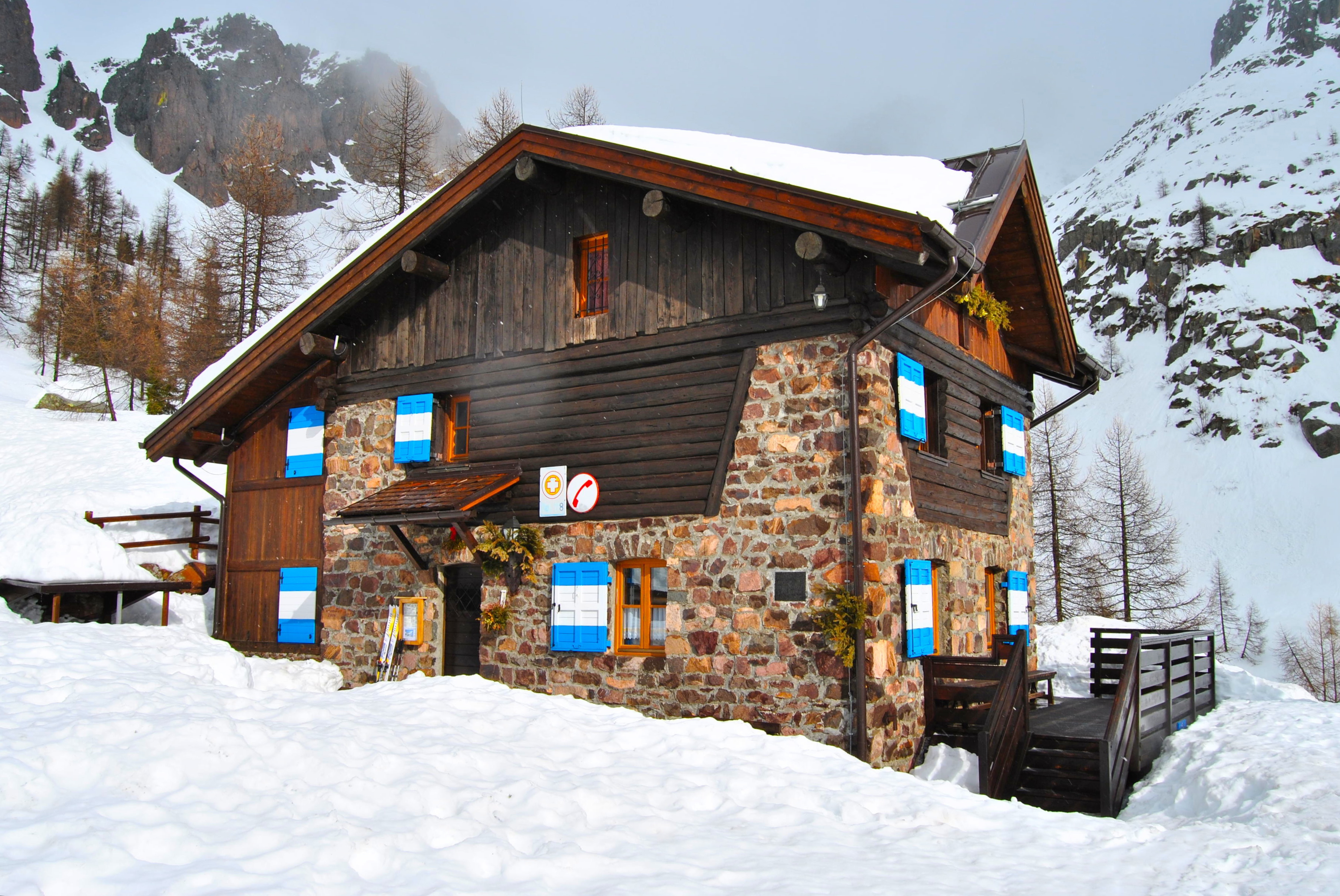 Rifugio Sette Selle - Lagorai - Province of Trento - Trentino-Alto Adige - Italy